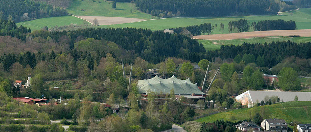 Elspe Festival area